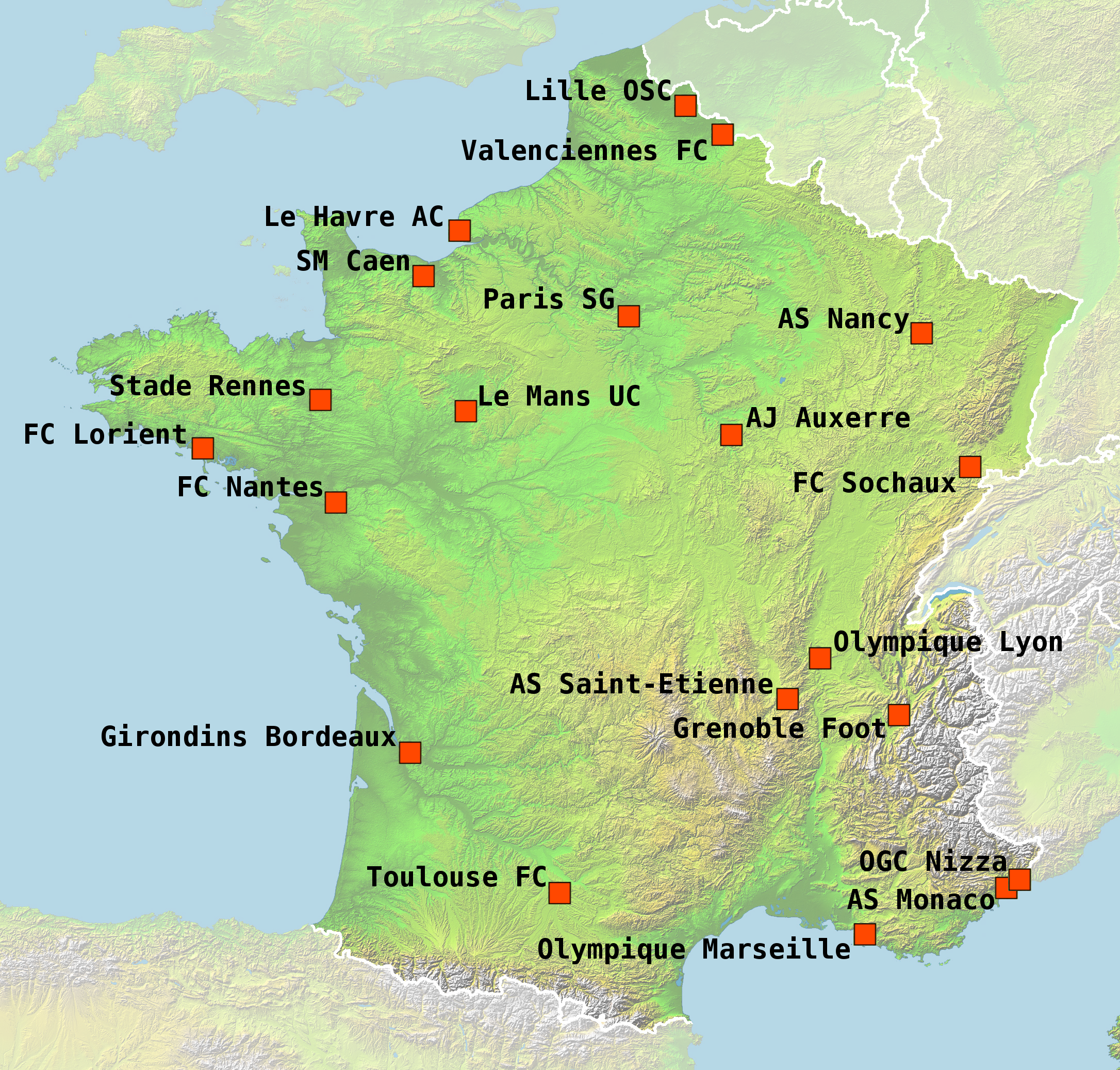 Map of France with locations of Ligue 1-FCs 2008/09